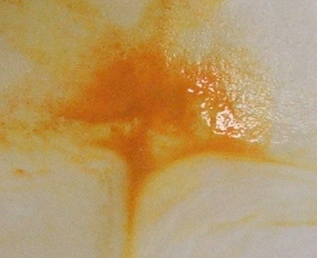 The yellow form of copper(I) oxide